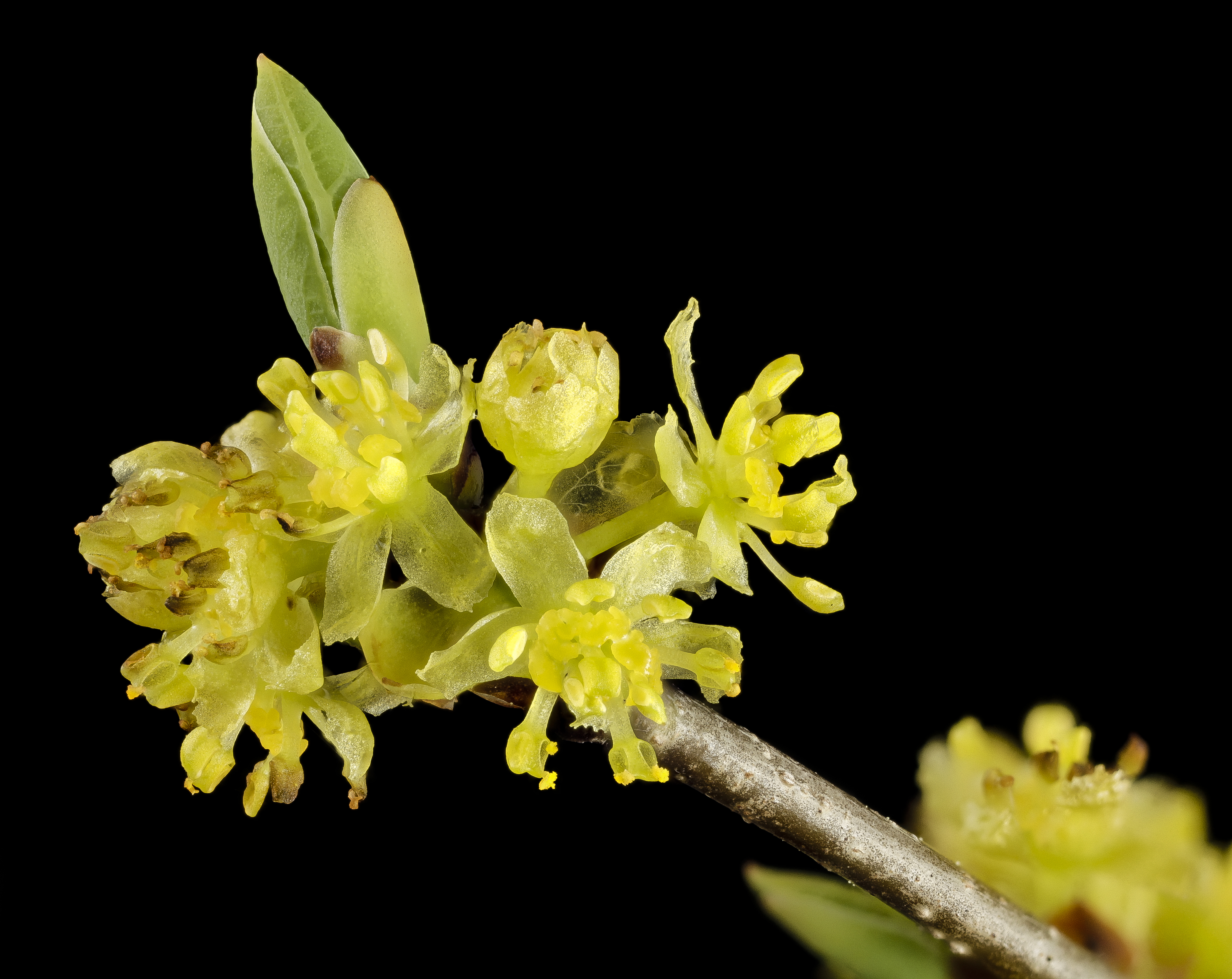 Lindera benzoin - The blossom of the spicebush shrub, common in the bottomlands in the region. Scratching the stem releases wonderful all spice similar smells. 10:54, 26 April 2015 (UTC)10:54, 26 April 2015 (UTC) 0 10:54, 26 April 2015 (UTC)10:54, 26 April 2015 (UTC) All photographs are public domain, feel free to download and use as you wish. Photography Information: Canon Mark II 5D, Zerene Stacker, Stackshot Sled, 65mm Canon MP-E 1-5X macro lens, Twin Macro Flash in Styrofoam Cooler, F5.0, ISO 100, Shutter Speed 200 Beauty is truth, truth beauty - that is all Ye know on earth and all ye need to know " Ode on a Grecian Urn" John Keats You can also follow us on Instagram account USGSBIML Want some Useful Links to the Techniques We Use? Well now here you go Citizen: Basic USGSBIML set up: USGSBIML Photoshopping Technique: Note that we now have added using the burn tool at 50% opacity set to shadows to clean up the halos that bleed into the black background from "hot" color sections of the picture. PDF of Basic USGSBIML Photography Set Up: ftp://ftpext.usgs.gov/pub/er/md/laurel/Droege/How%20to%20Take%20MacroPhotographs%20of%20Insects%20BIML%20Lab2.pdf Google Hangout Demonstration of Techniques: or Excellent Technical Form on Stacking: Contact information: Sam Droege 301 497 5840